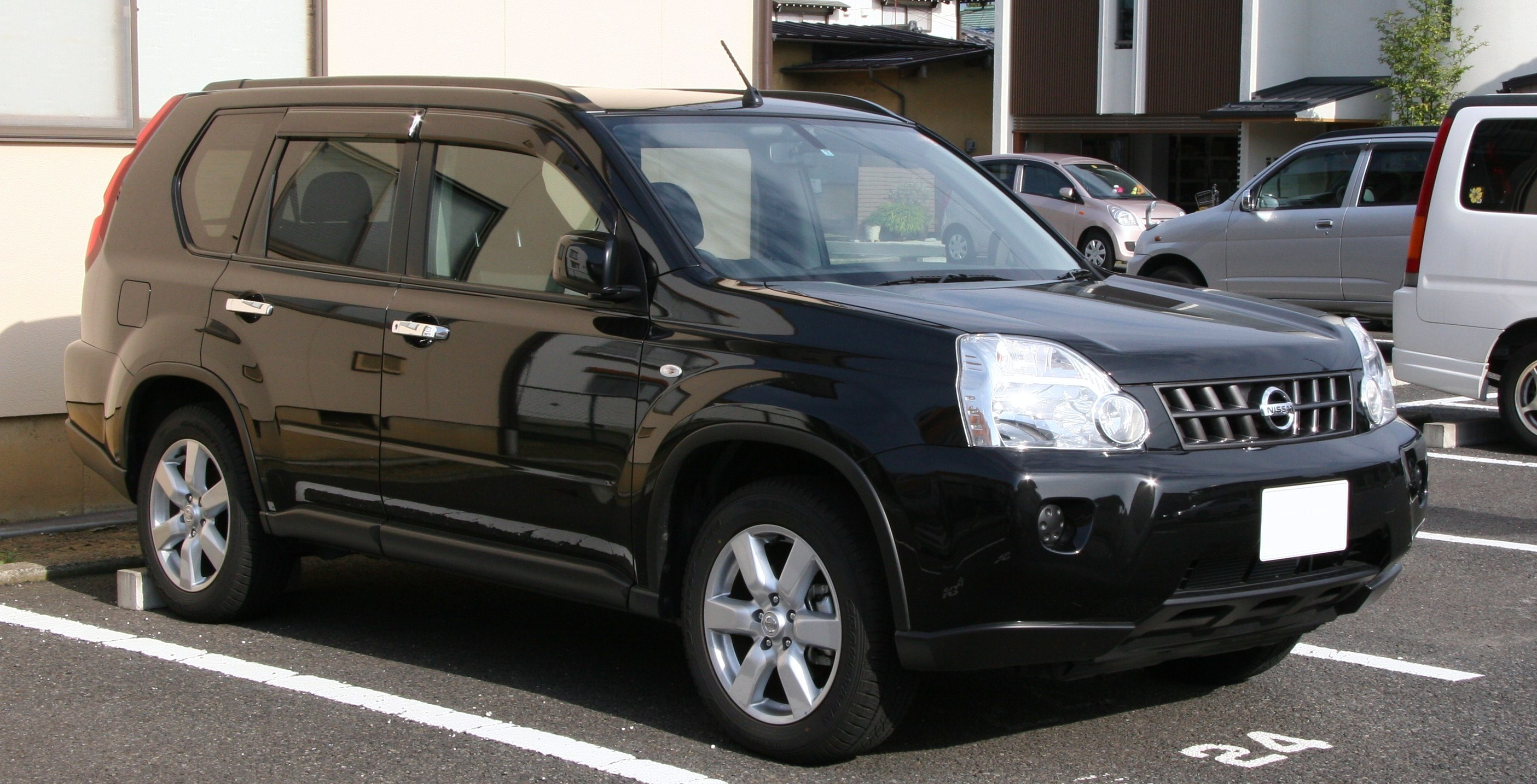 NISSAN X-TRAIL in Japan